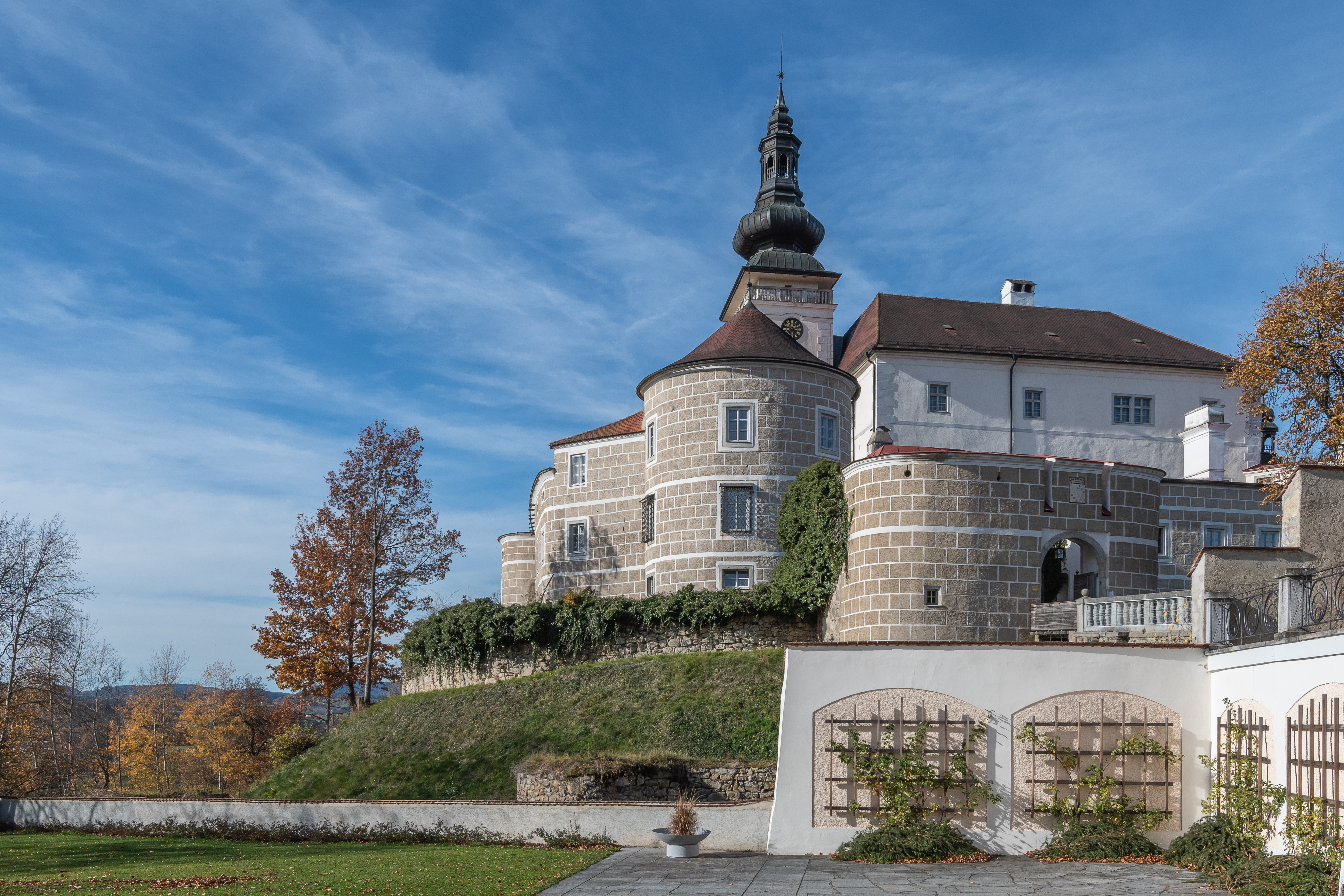 Castle Weinberg in the community Kefermarkt / Upper Austria